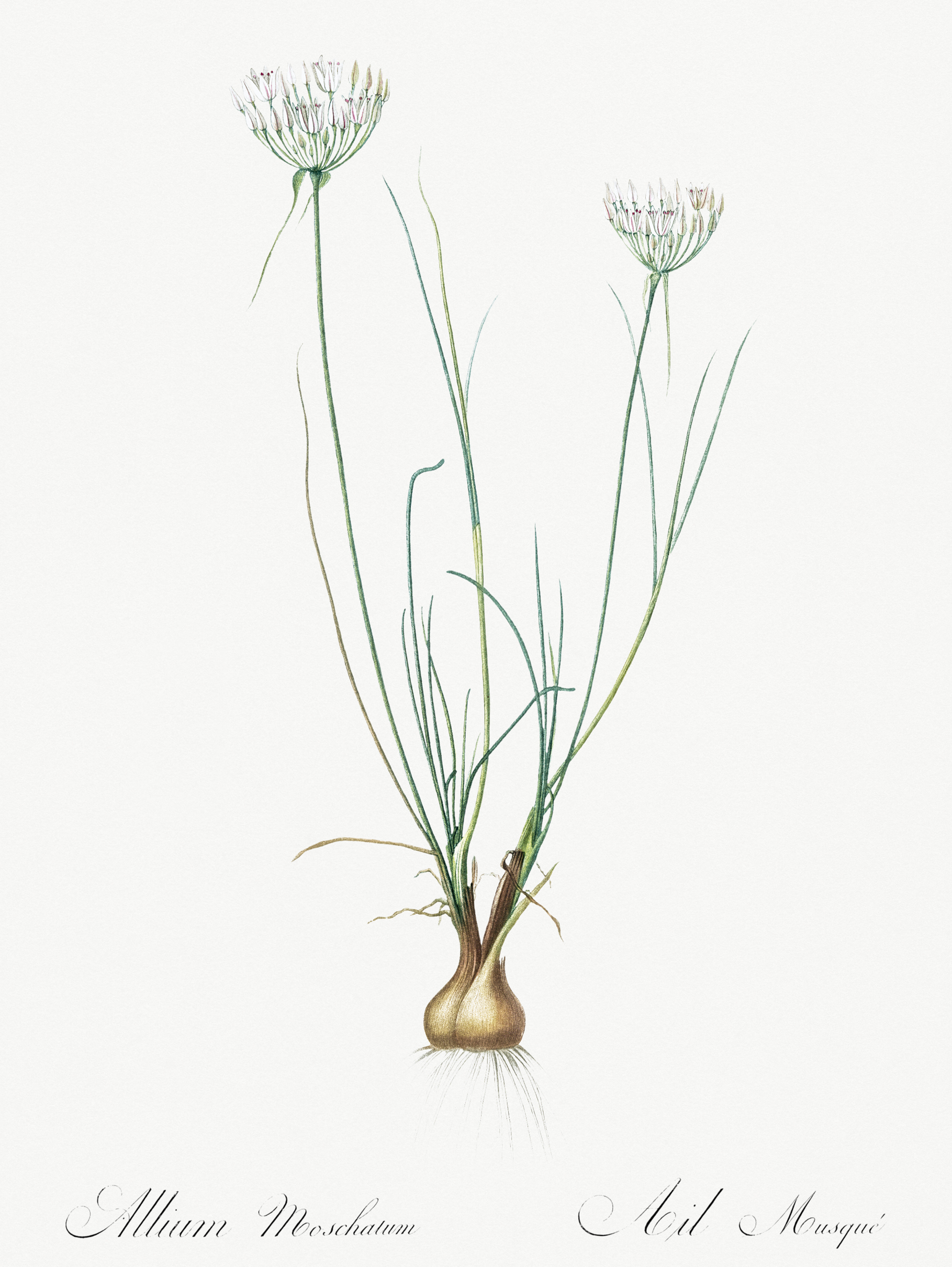 Allium moschatum illustration from Les liliacées (1805) by Pierre Joseph Redouté (1759-1840). Digitally enhanced by rawpixel.